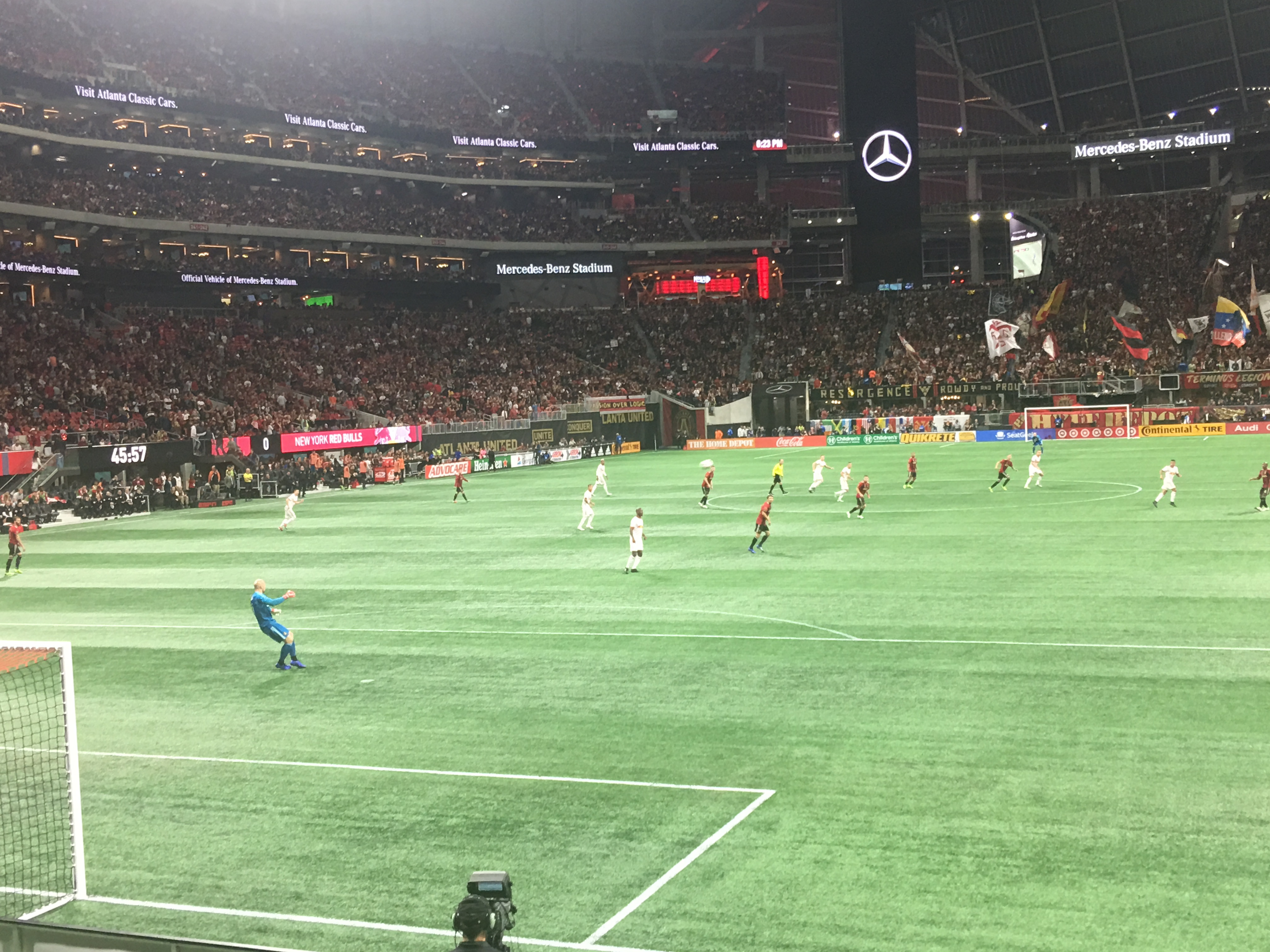 2018-11-25 - Atlanta United vs NY Red Bulls